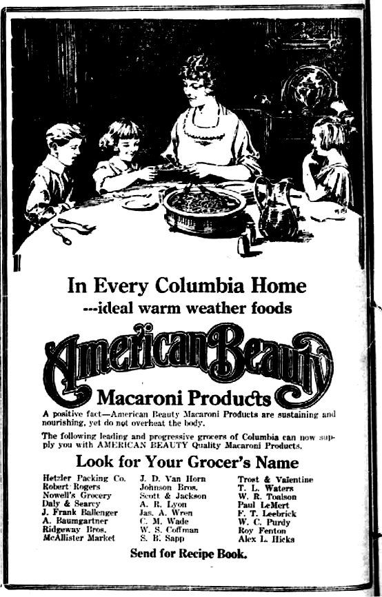 American Beauty macaroni newspaper ad.